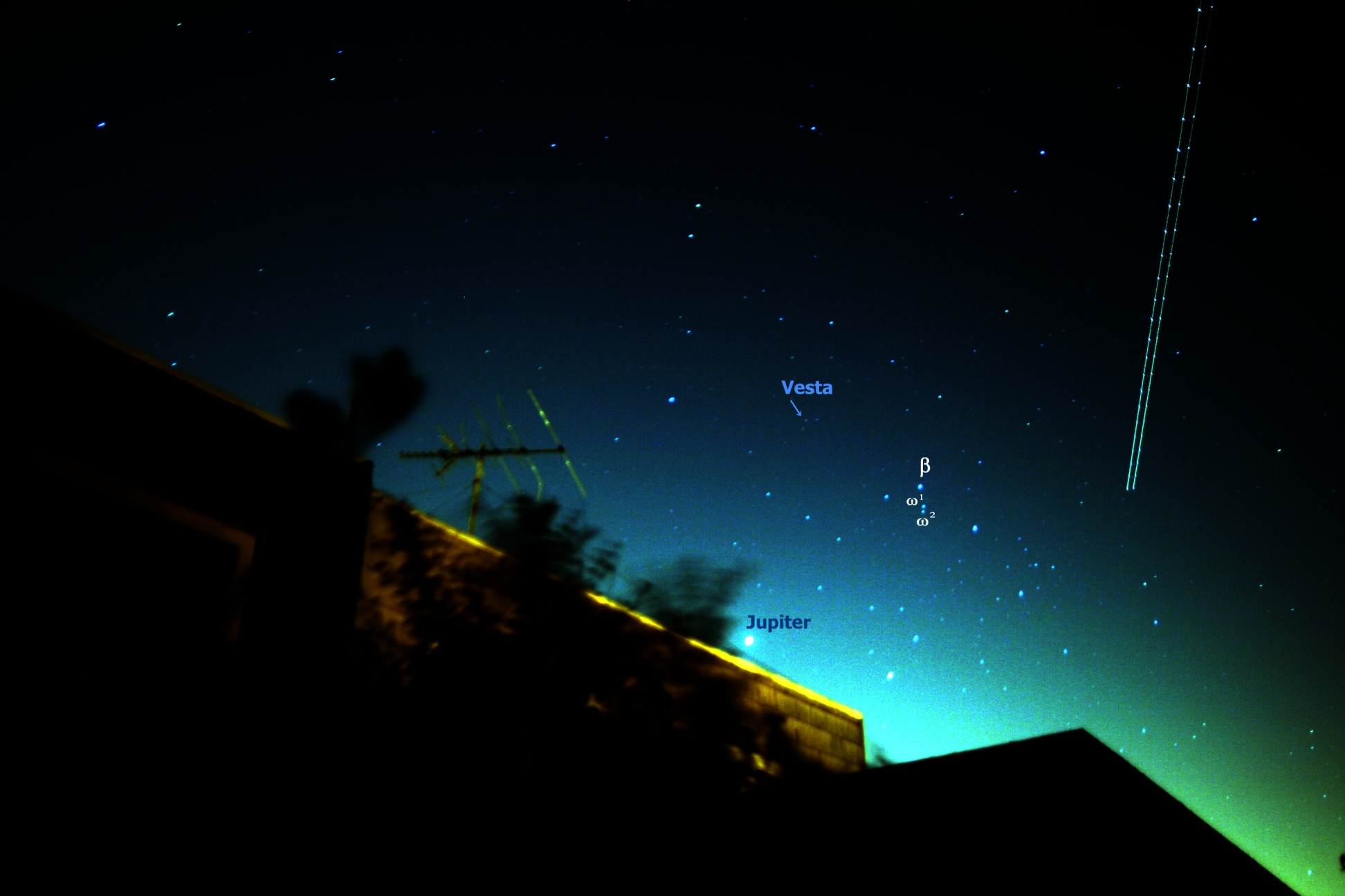 Asteroid Vesta. The picture is a single frame. The colors were adjusted in PS. Star chart for Vesta finder. Two dotted lines on the right of the image are stroboscopic lights from an airplane. It shows as two lines because of the time exposure. The white dots are the lights flashing.